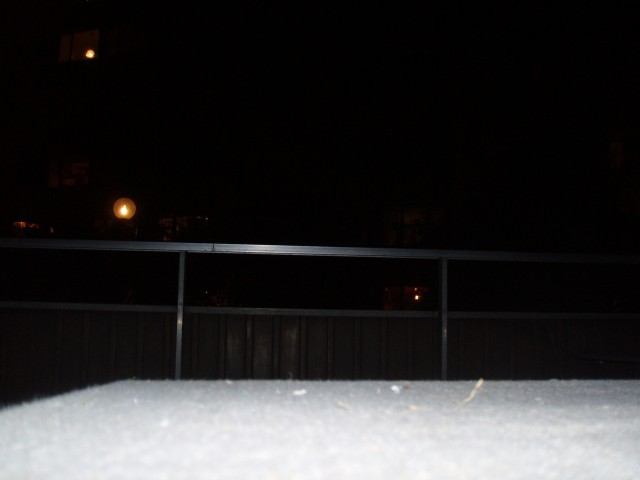 Image with no orbs